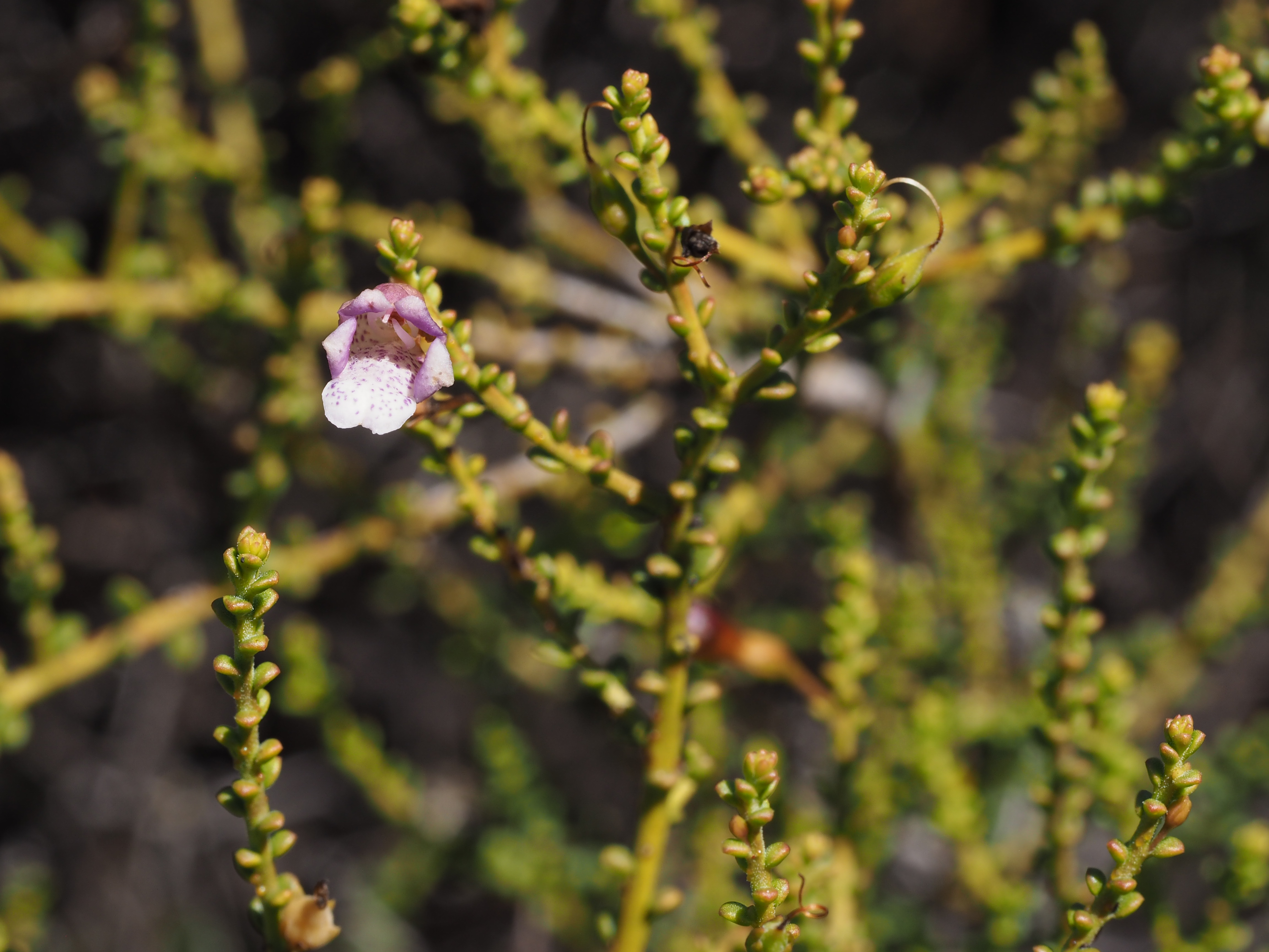 Eremophila parvifolia auricampa growing 10km from Kalgoorlie along Yarri Road